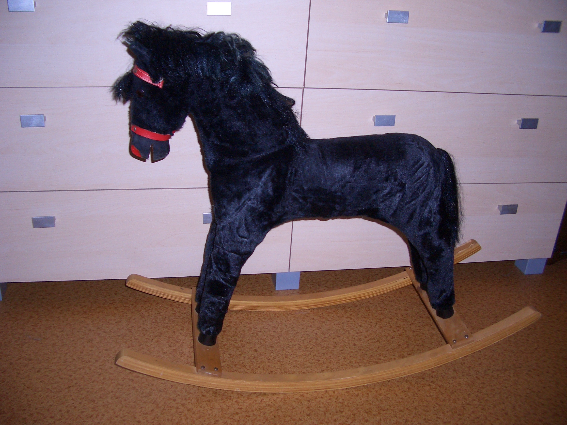 A photo of a rocking horse. There was a request for free licenced pictures of rocking horses on the English Wikipedia so I snapped a couple.